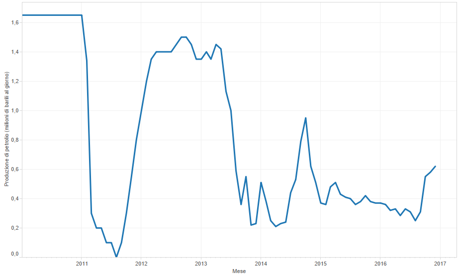 Crude oil production in Libya (million barrels per day), 2010-2016. Source: U.S. Energy Information Administration